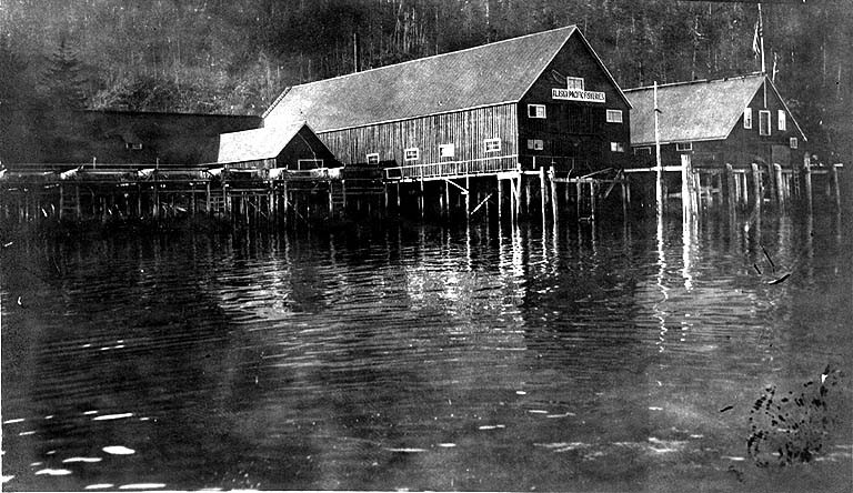 On verso of image: Chilkoot In Folder 45 Subjects (LCTGM): Canneries--Alaska--Chilkoot Inlet; Piers & wharves--Alaska--Chilkoot Inlet Subjects (LCSH): Salmon canning industry--Alaska--Chilkoot Inlet